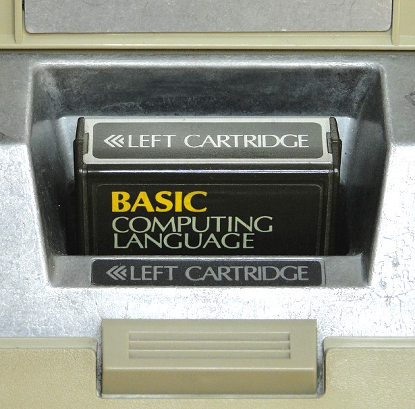 Atari 400 with BASIC Cartridge plugged in